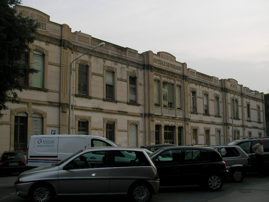 The ex hospital Morgagni of Forlì